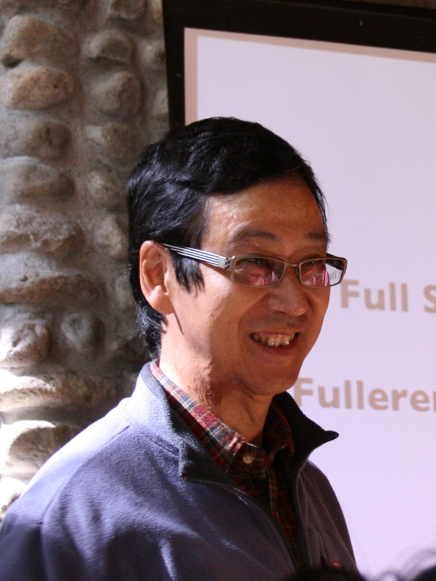 Prof. Nakamura Eiichi, a great chemist in the University of Tokyo.中文（中国大陆）: 东京大学中村荣一教授，著名化学家